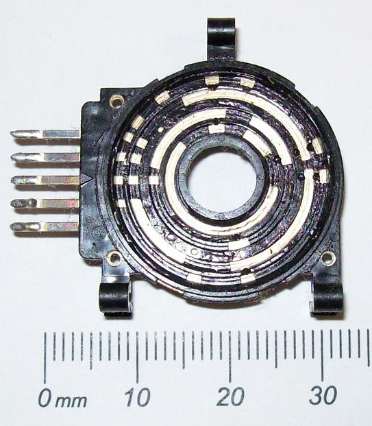 mechanical coding contacts